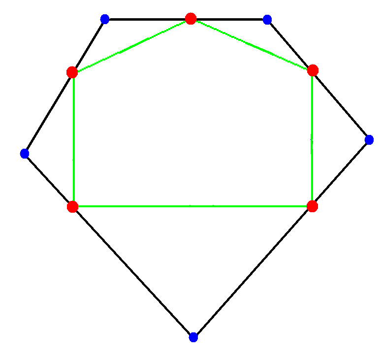 Bisected_angle_pentagon_dual